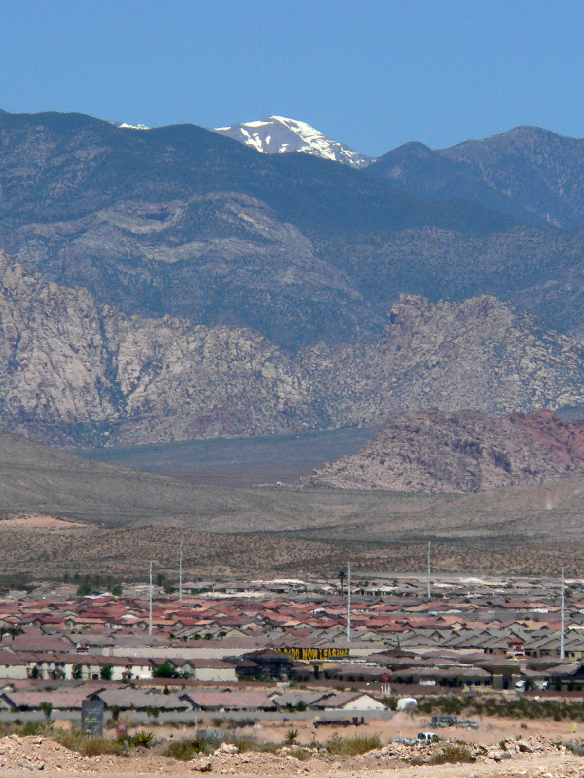 The Spring Mountains, with Mount Charleston. Seen from southwestern Las Vegas, Nevada, at approximately the Buffalo exit from Interstate 215.